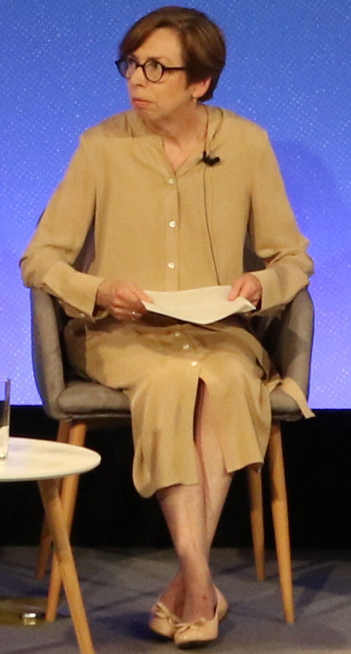 Fran Unsworth. Safety and Protection of Journalists II: Towards a Shared Solution.